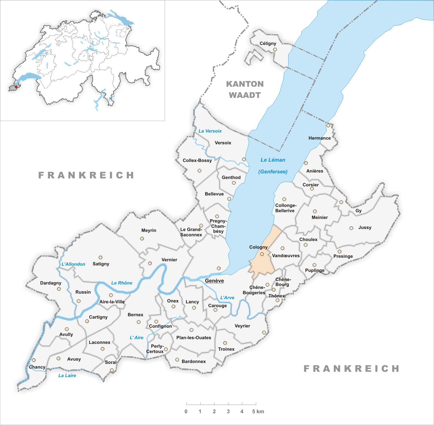 Municipality Cologny